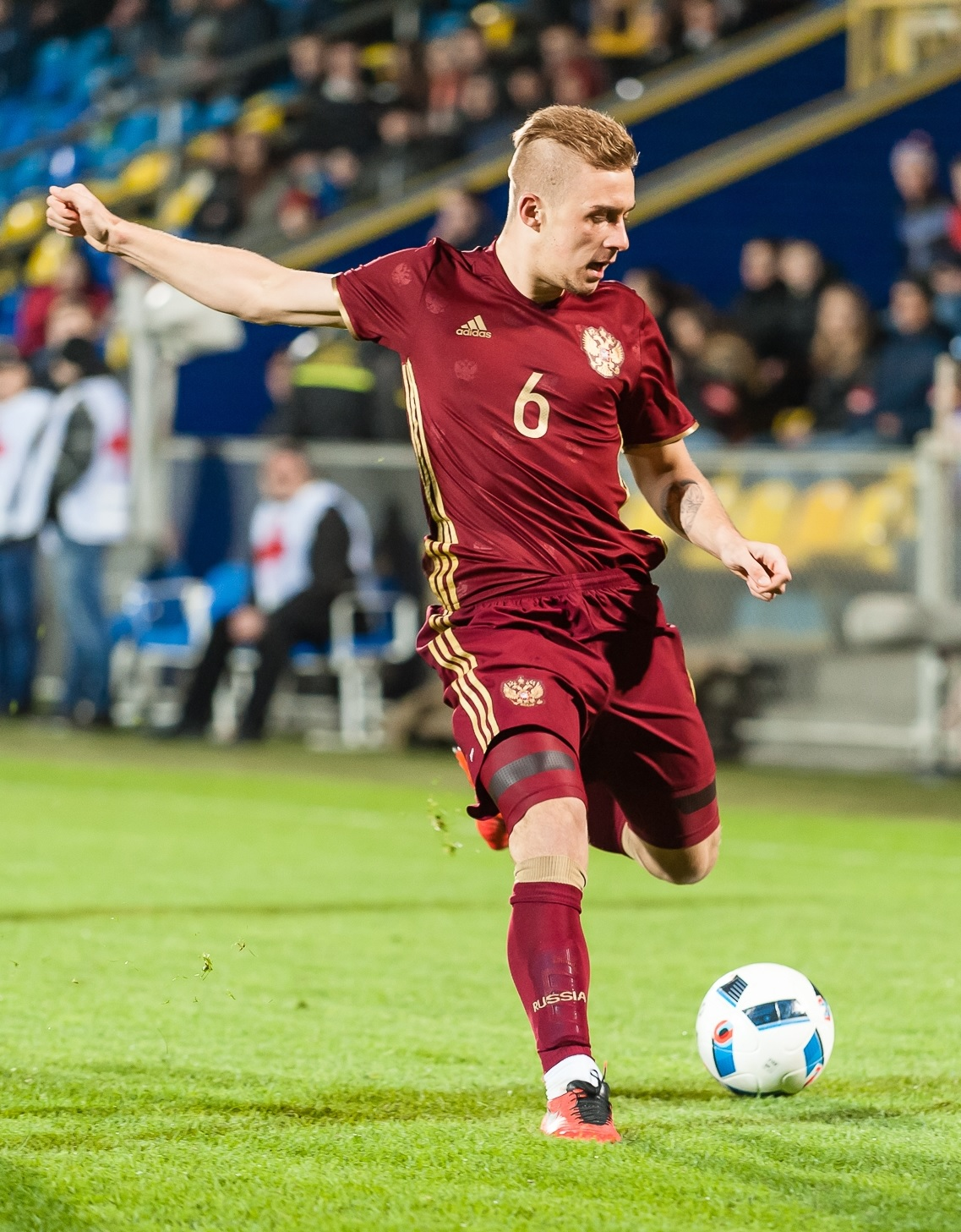 Dmitri Barinov in action for the Russia under-21 national football team in a game against Germany under-21 in Rostov-on-Don on 29 March 2016.